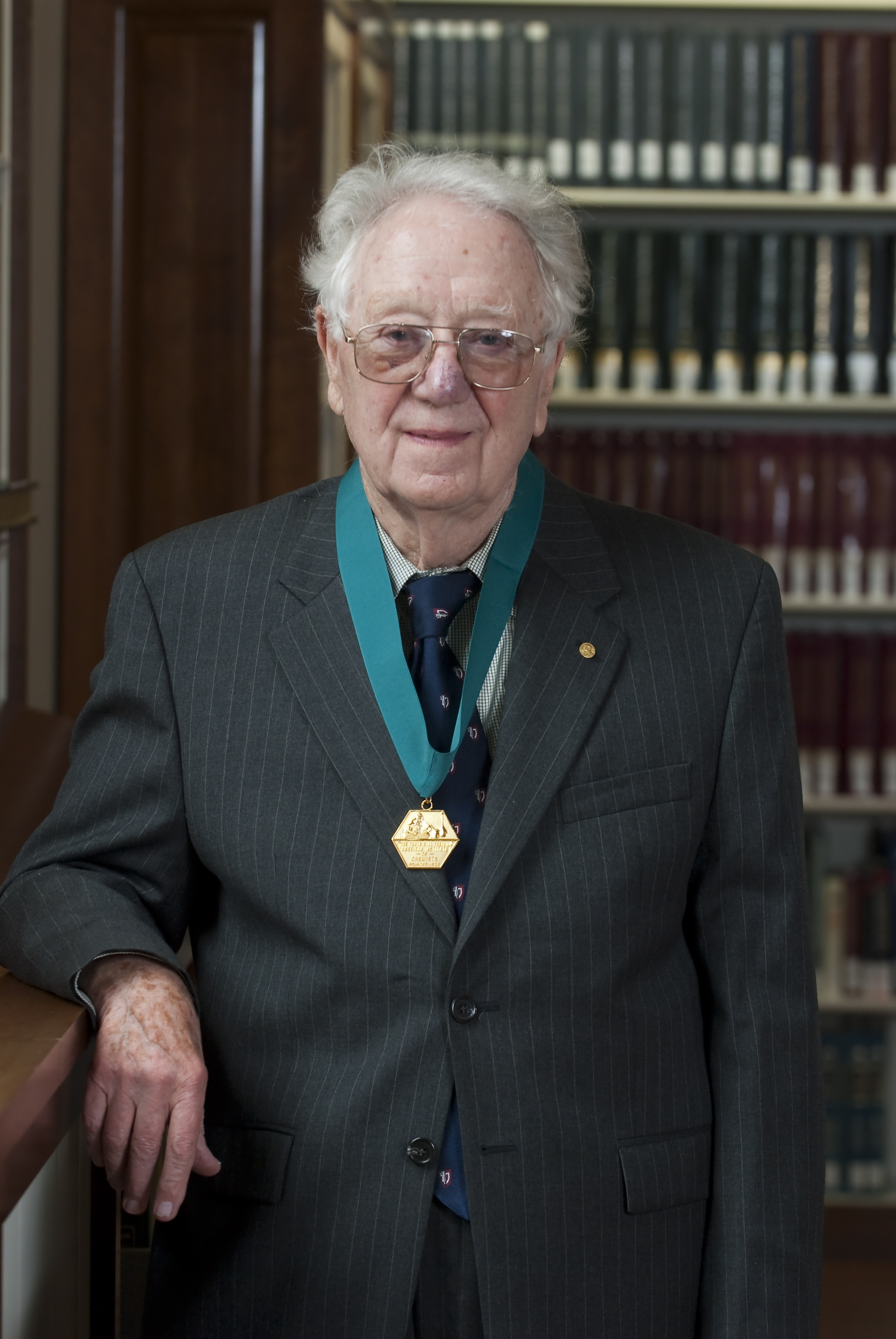 Photograph of Oliver Smithies, with the American Institute of Chemists Gold Medal, awarded 14 May 2009, at the Chemical Heritage Foundation.